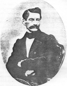 The bavarian minister Theodor von Zwehl (1800-1875)